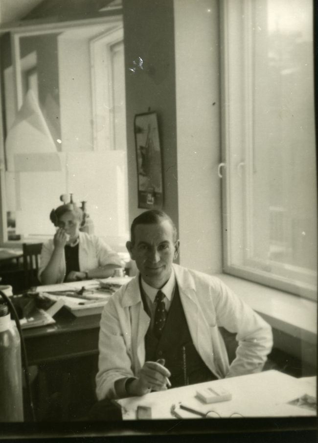 Photograph of the Finnish artist Johan Vilhelm Mattila (1884–1959) at his workplace, an advertisement agency.